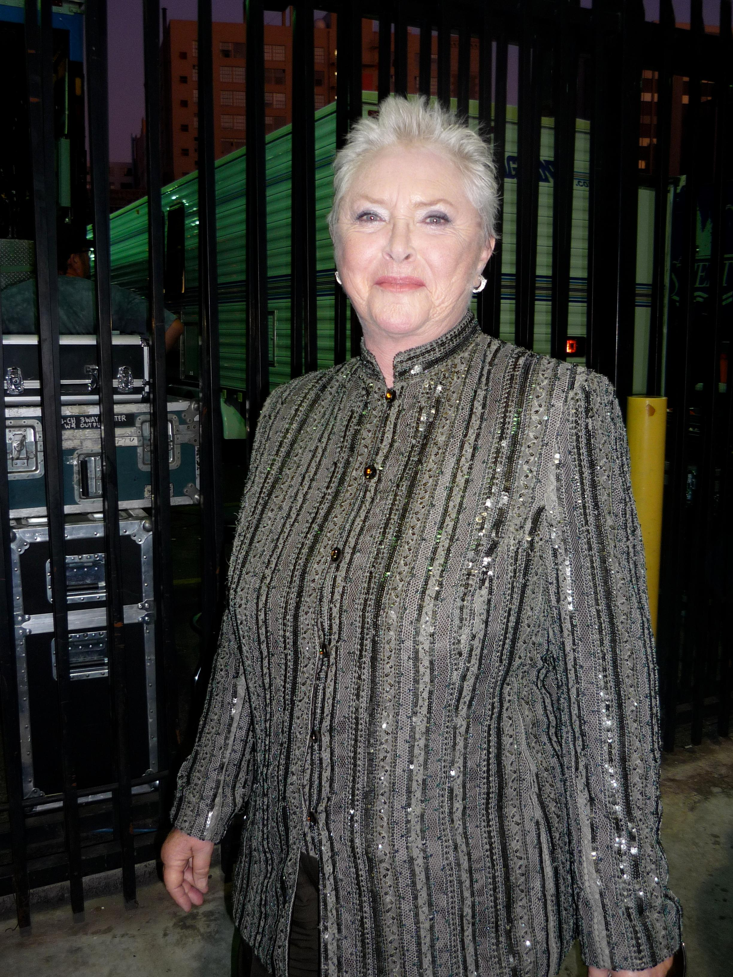 Actress Susan Flannery at 2009 Daytime Emmy Awards